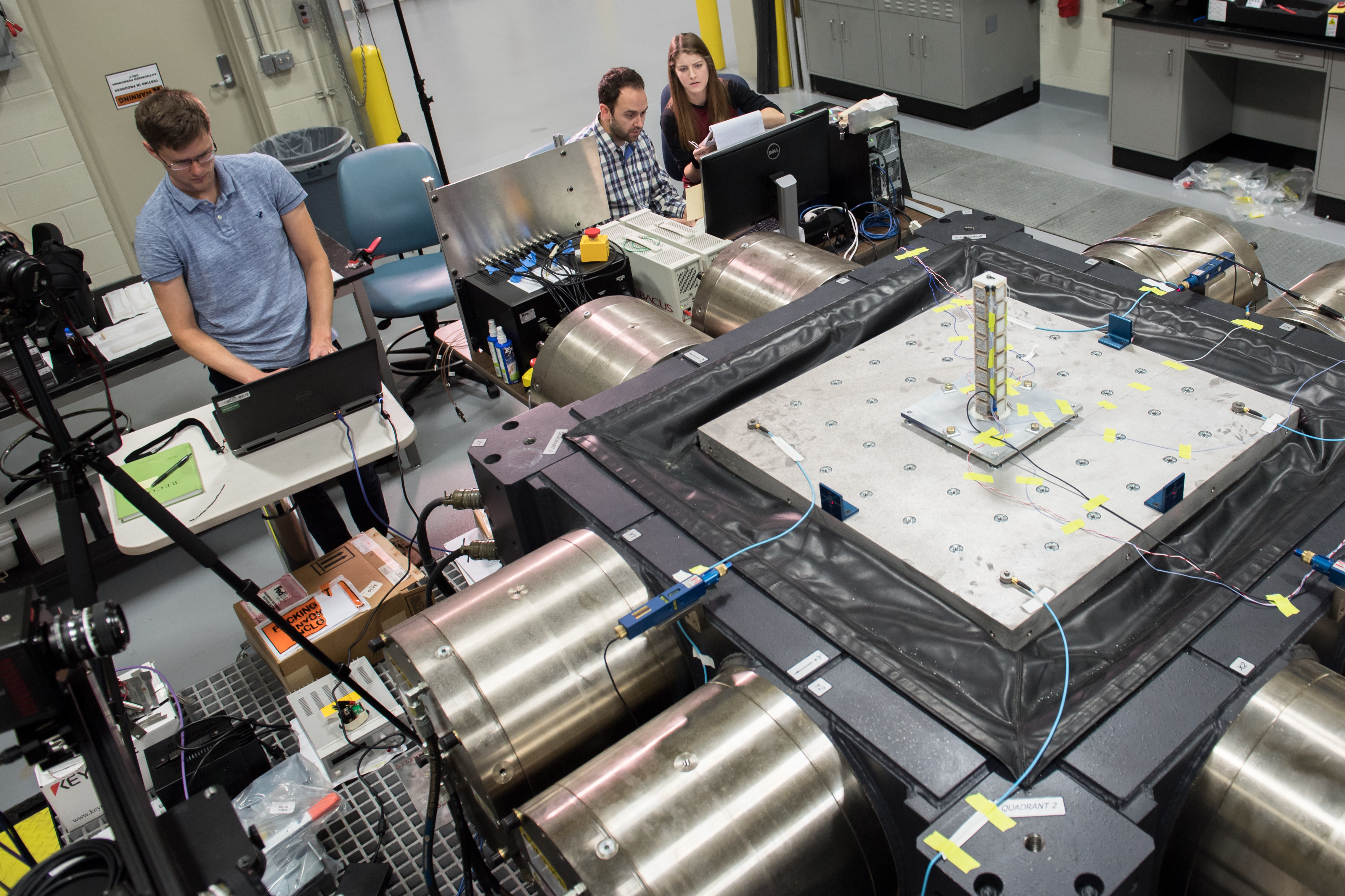 The U.S. Army Research Laboratory uses the “Shaker” to conduct experiments in multi-axial vibrations and develop technology to mitigate the danger it could cause to vehicles and structures. (U.S. Army photo by David McNally)